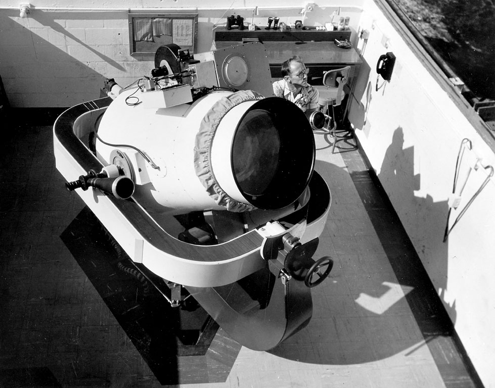 Looking down on the Baker-Nunn Camera, one of the world's most sensitive devices for observing artificial satellites. A network of twelve tracking stations equipped with such cameras is maintained by the Smithsonian Astrophysical Observatory for the observation of both natural and artificial objects in space. The stations are located in Argentina, Australia, Curacao, India, Iran, Japan, Peru, South Africa, Spain, and at three sites in the United States Full description